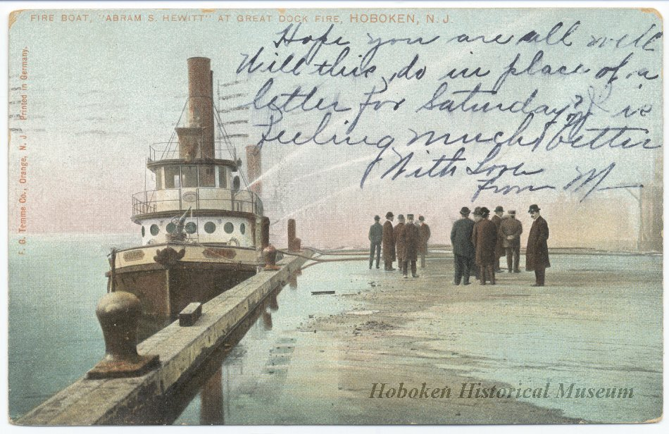 FDNY fireboat Abram S. Hewitt during the 1905 Terminal Fire, Hoboken, N.J. Postmarked May 9, 1908.